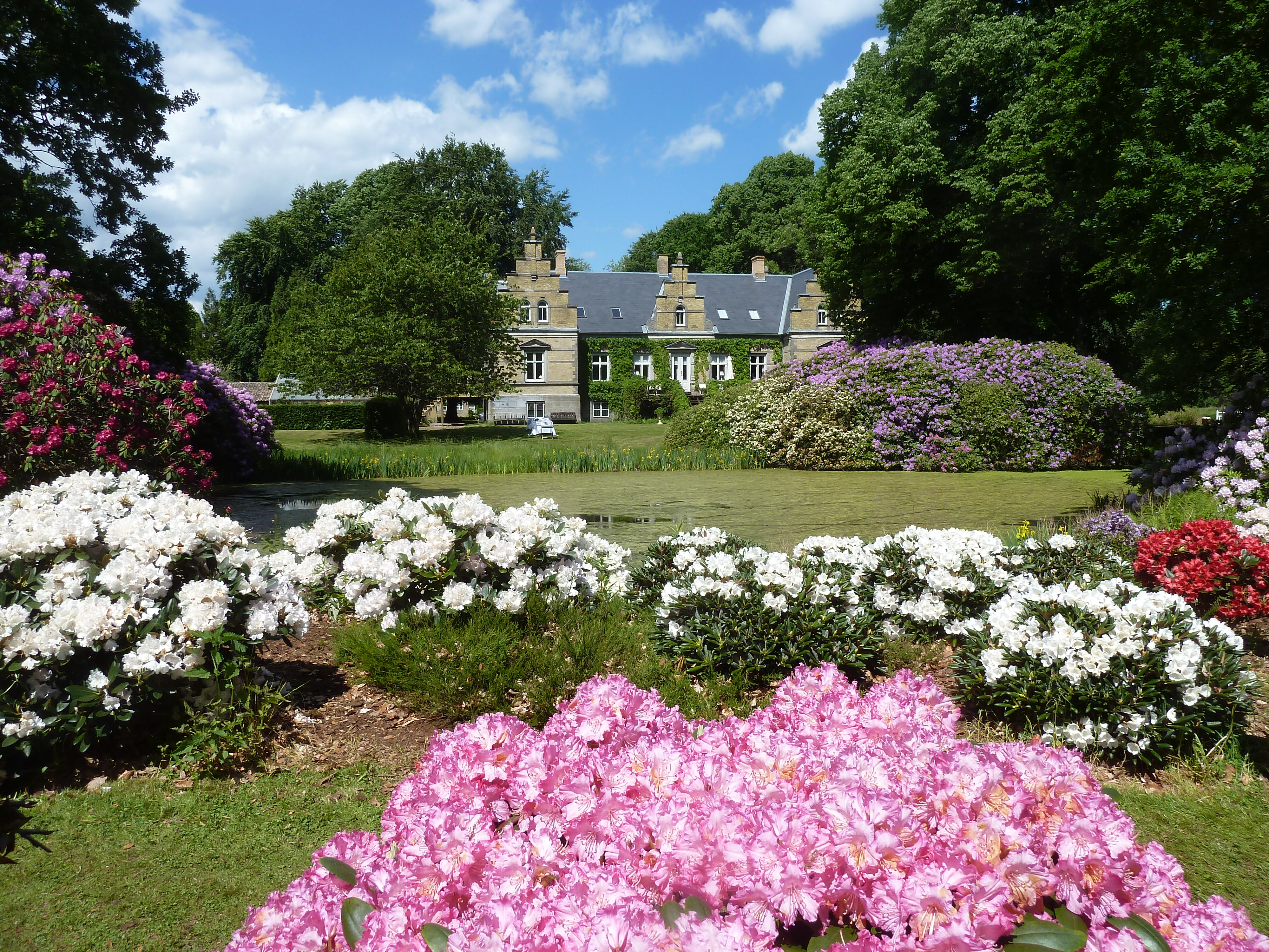 The park at Nivaagaard with the old main Building in the background in Nivå, Denmark Nivaagaard Museum Native nameNivaagaards MalerisamlingLocationNivå, DenmarkCoordinates55° 55′ 36.84″ N, 12° 30′ 38.52″ E Established1908Web page control : Q10601378 VIAF: 144272183 ISNI: 0000 0001 2331 6970 LCCN: n84090937 WorldCat institution QS:P195,Q10601378